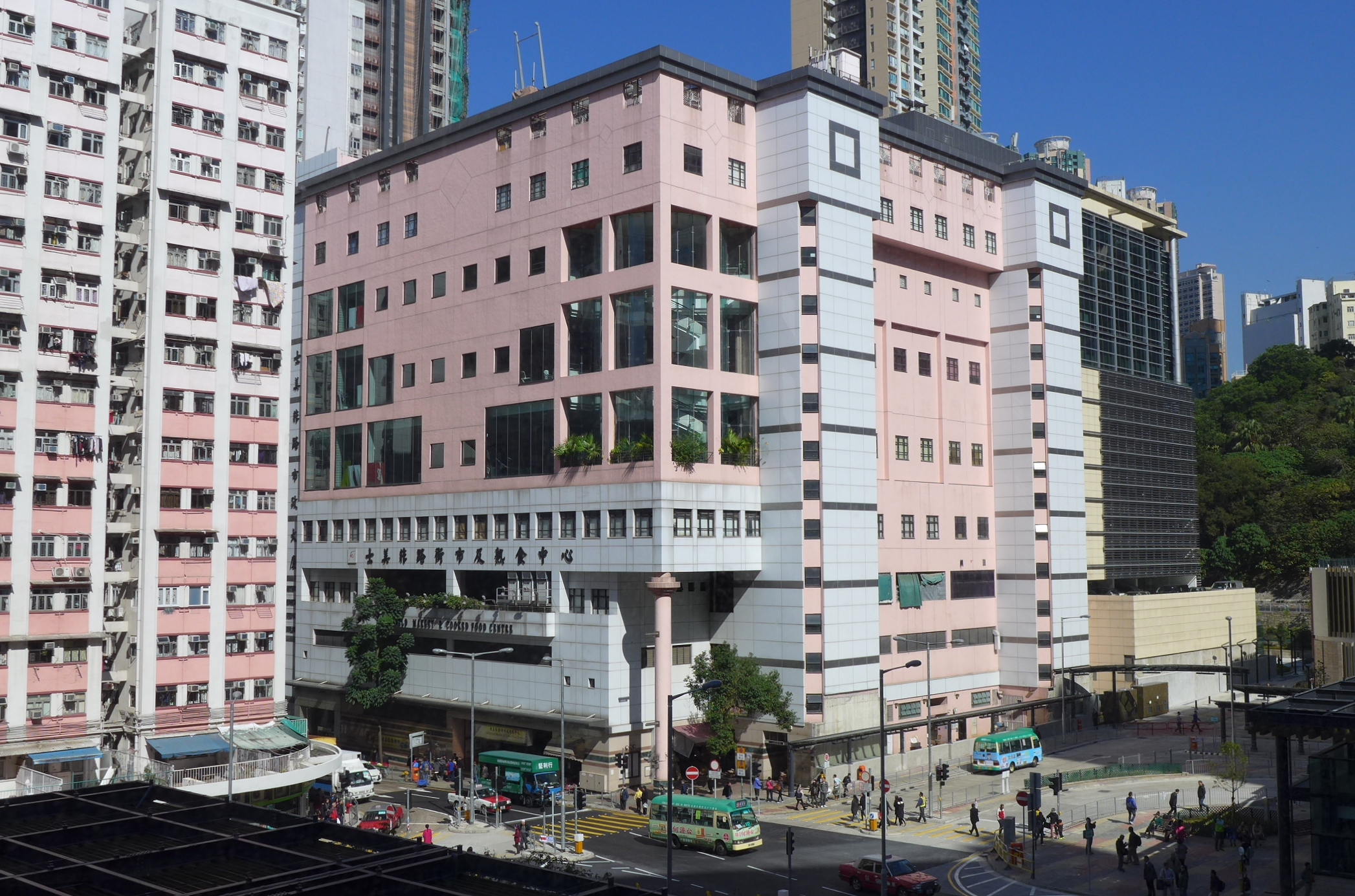 Smithfield Municipal Services Building